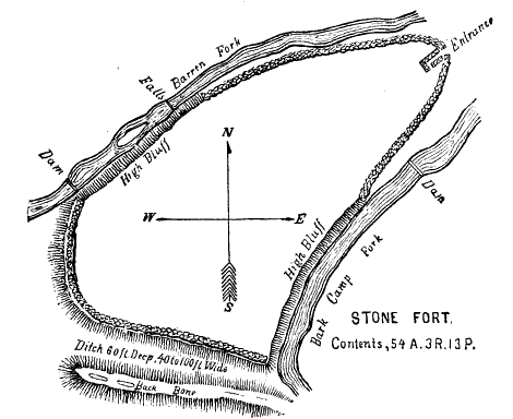 Plan of the Old Stone Fort, a ceremonial structure built circa 80–550 A.D. near what is now Manchester, Tennessee. This plan originally appeared in Joseph Jones's Explorations of the Aboriginal Remains of Tennessee.